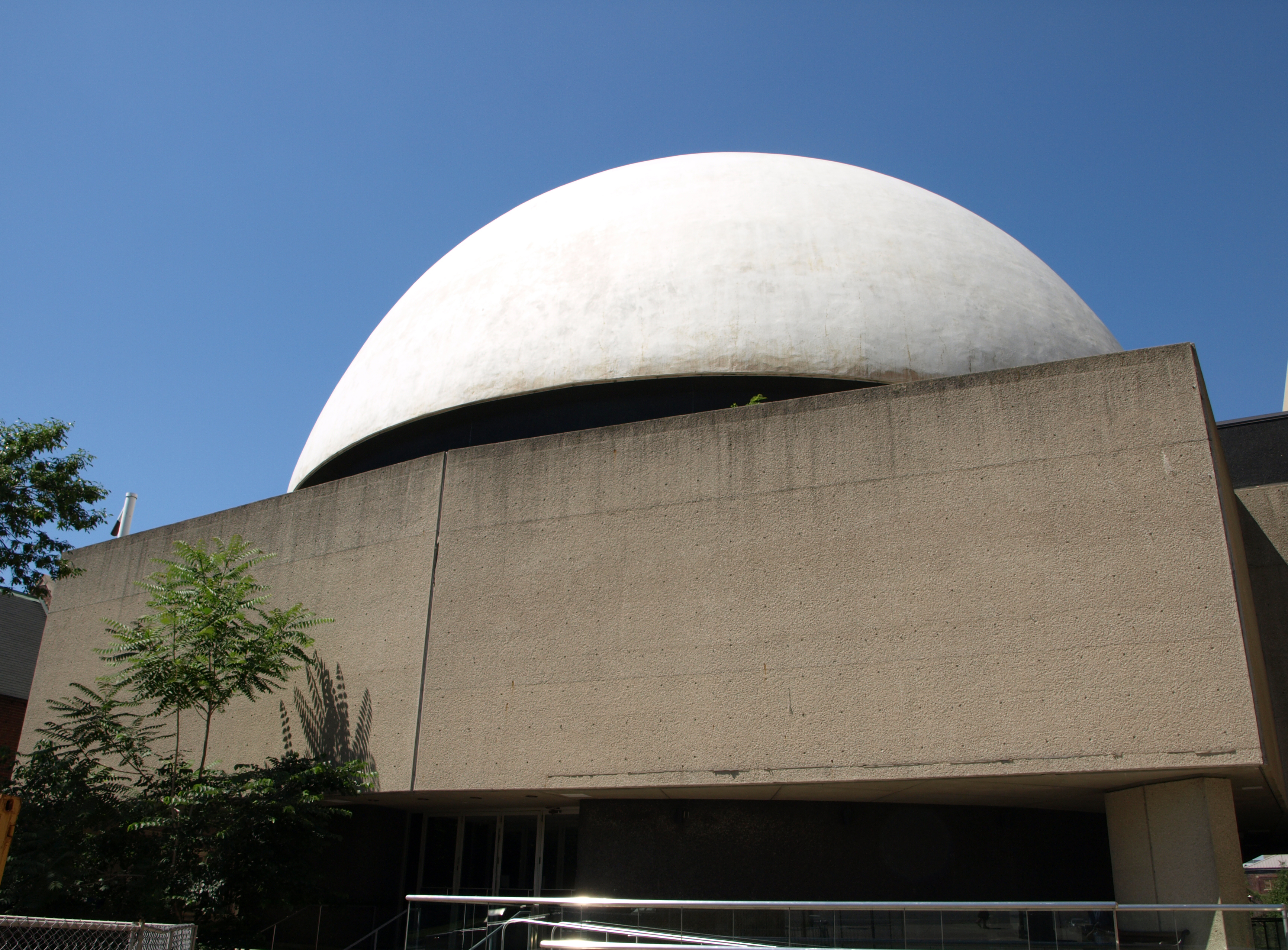 View of the east-facing exterior of the now defunct McLaughlin Planetarium, Toronto.